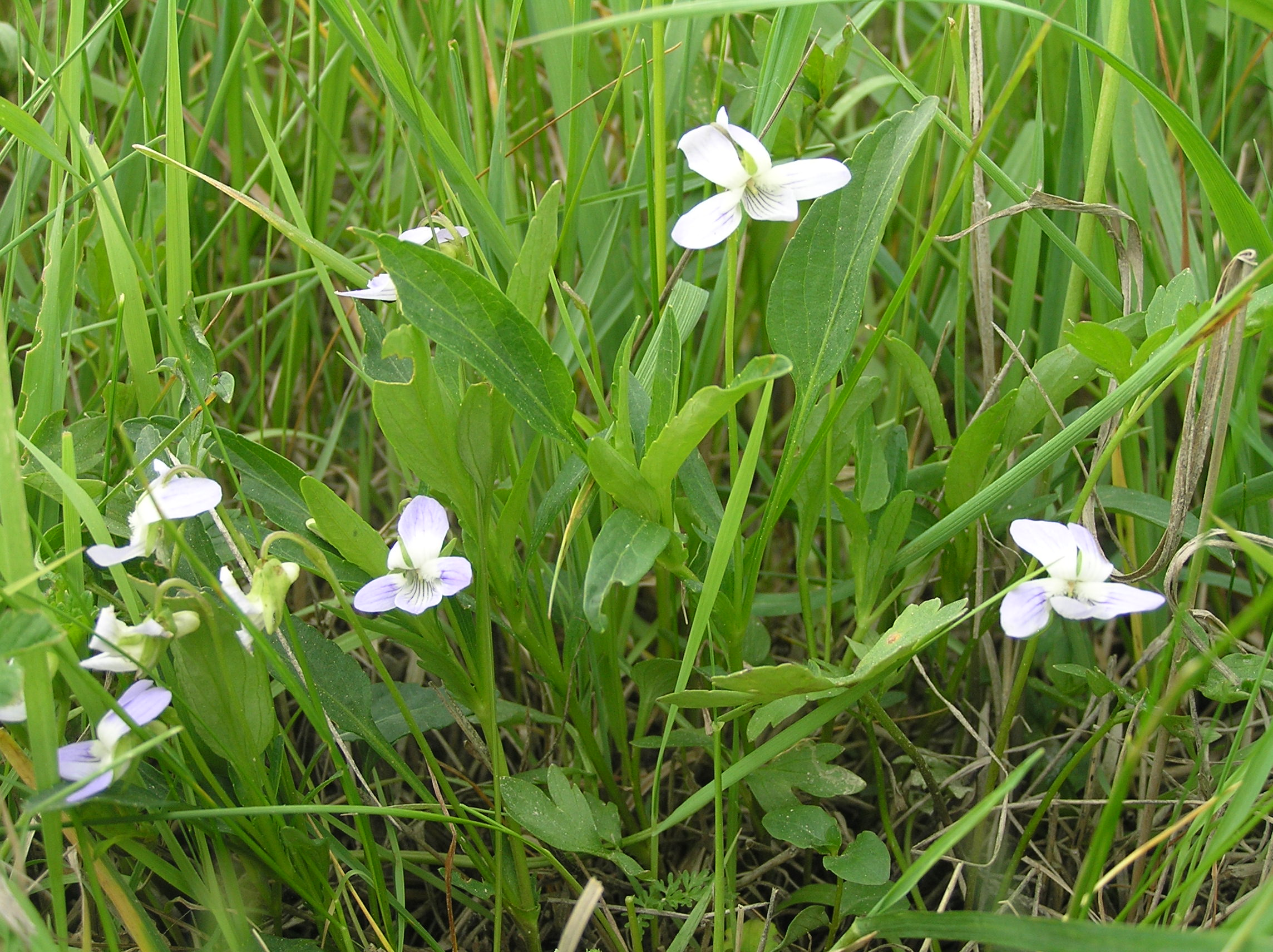 Viola pumila, Lanžhot, Southern Moravia, Czech Republic